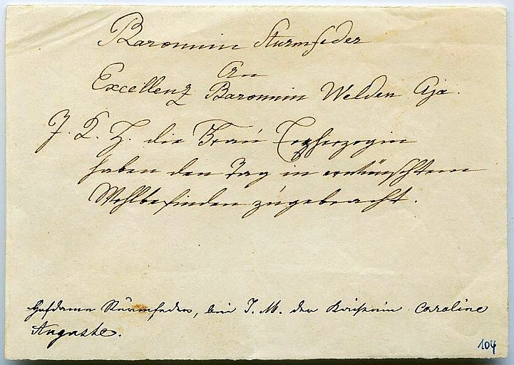 Louise von Sturmfeder (+ 1866), Erzieherin von Kaiser Franz Joseph, Brief an eine andere Hofdame